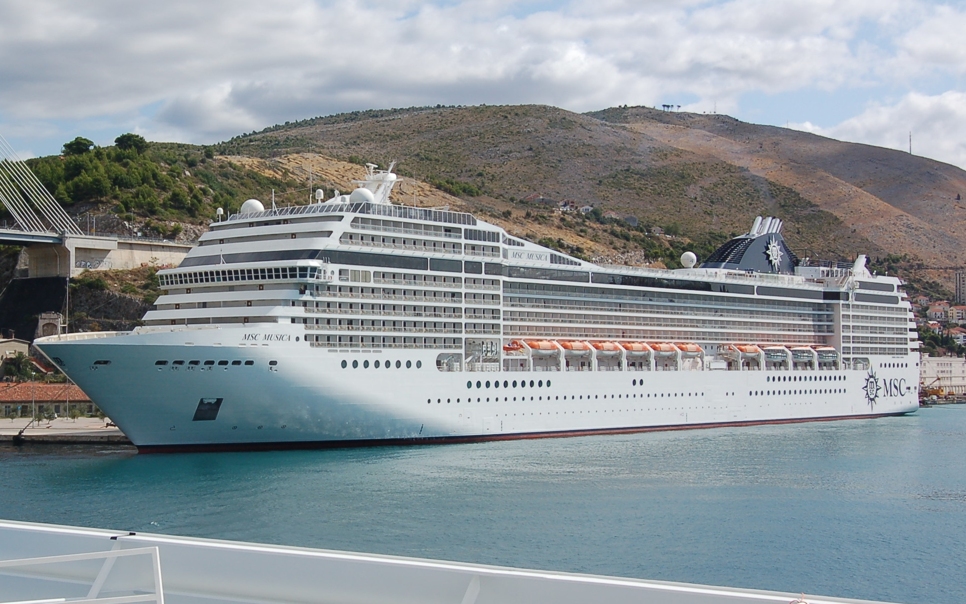 The MSC Musica, operated by MSC Cruises, tied up at Gruž, the main port for Dubrovnik, Croatia, with the Franjo Tuđman Bridge at left. Photo taken from another cruise ship, the MS Insignia.